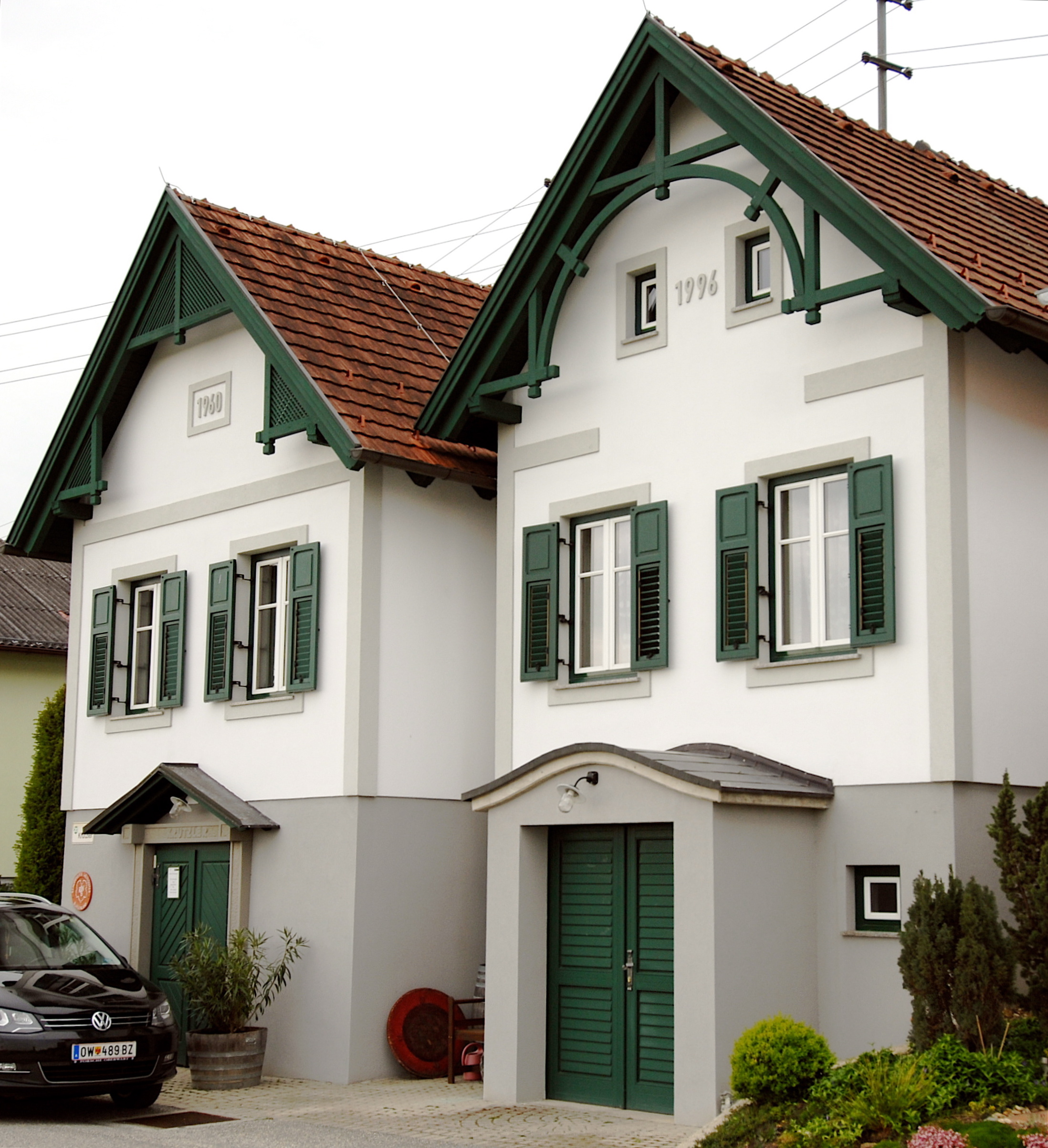 Krutzler Winery, Deutsch-Schützen